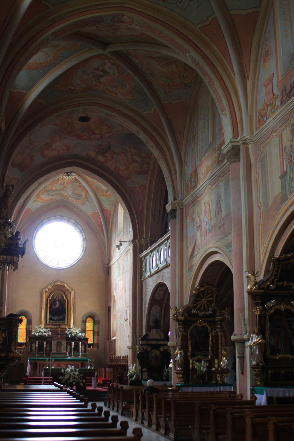 Main nave of the Cistercian Abbey in Wachock, Poland